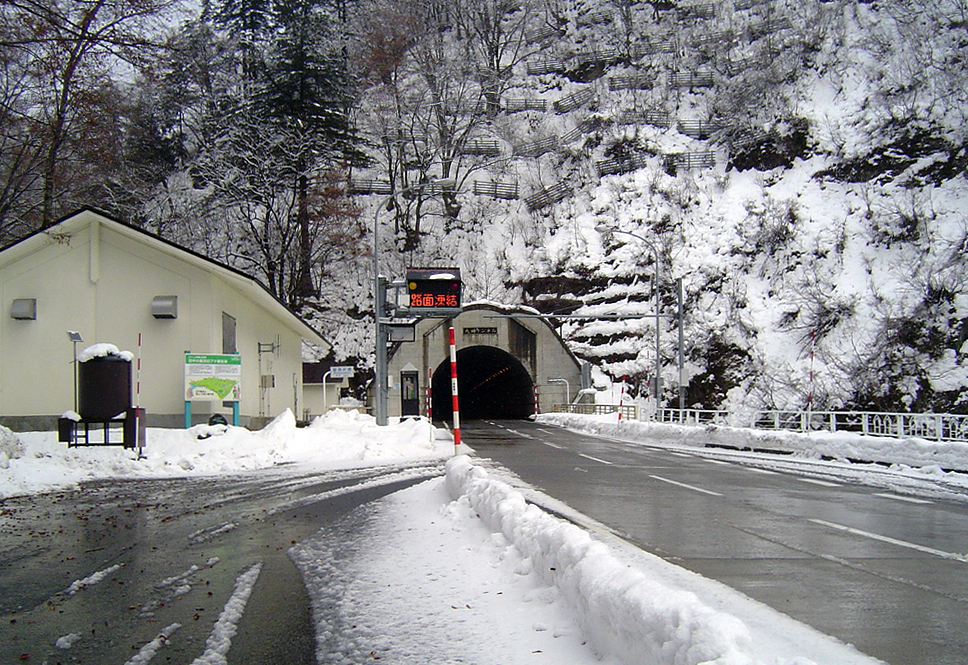 Ō-tōge Tunnel of Route 121 in Kitakata, Fukushima, Japan. Sony Cyber-shot DSC-P8